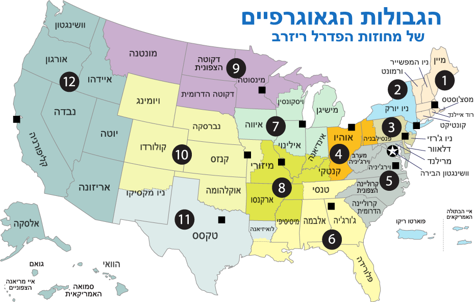 A map of the 12 districts of the United States Federal Reserve system.